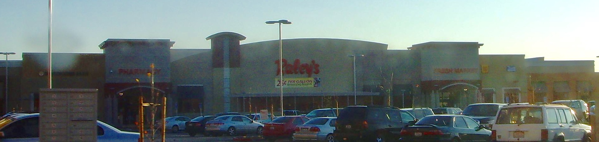 North Modesto Raleys, California